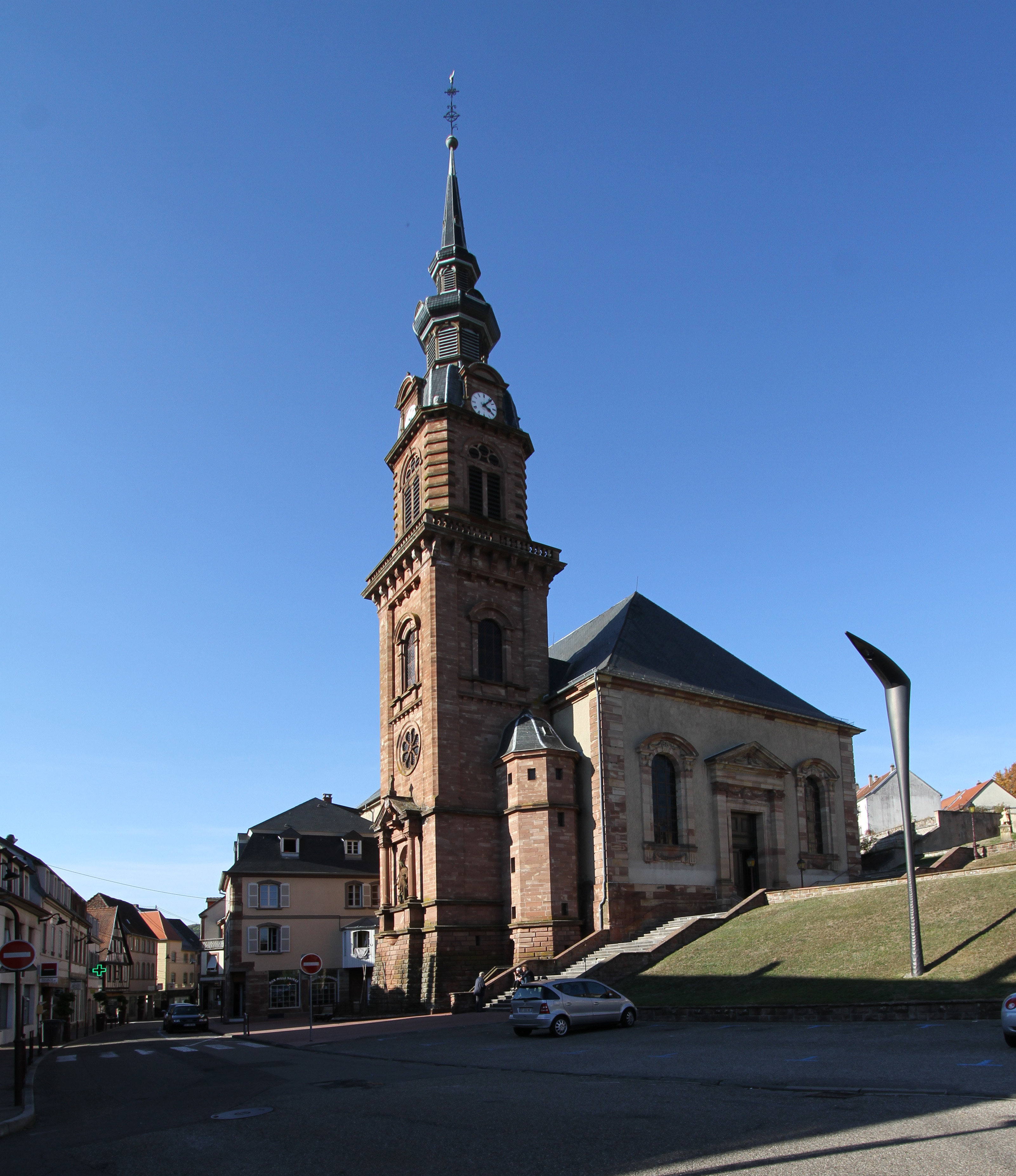 Church of Saint Catherine in Bitche